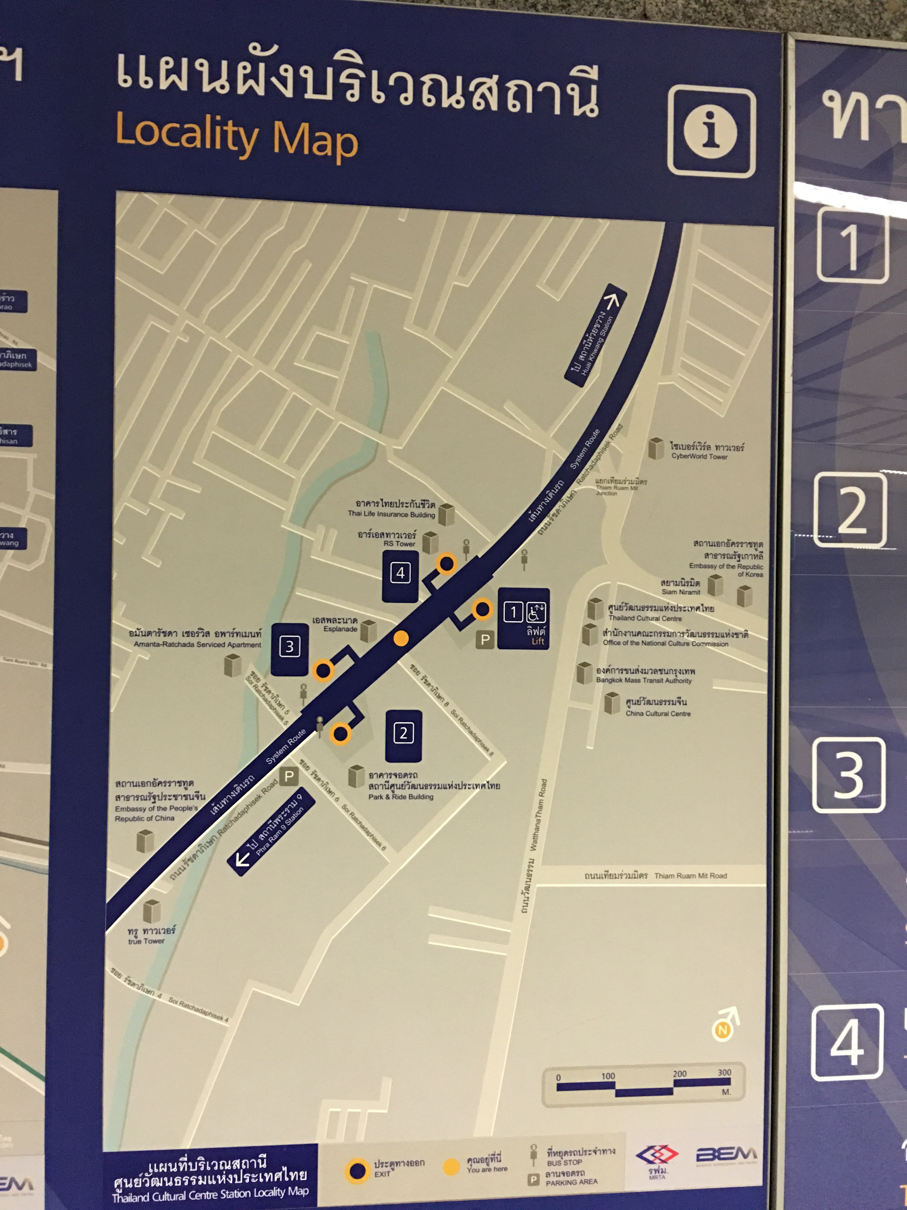 The locality map of Thailand Cultural Centre Station